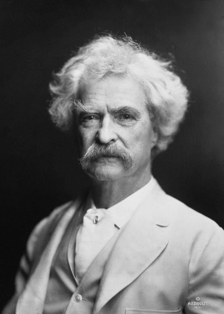 A portrait of the American writer Mark Twain taken by A. F. Bradley in New York, 1907.[1][2][3]